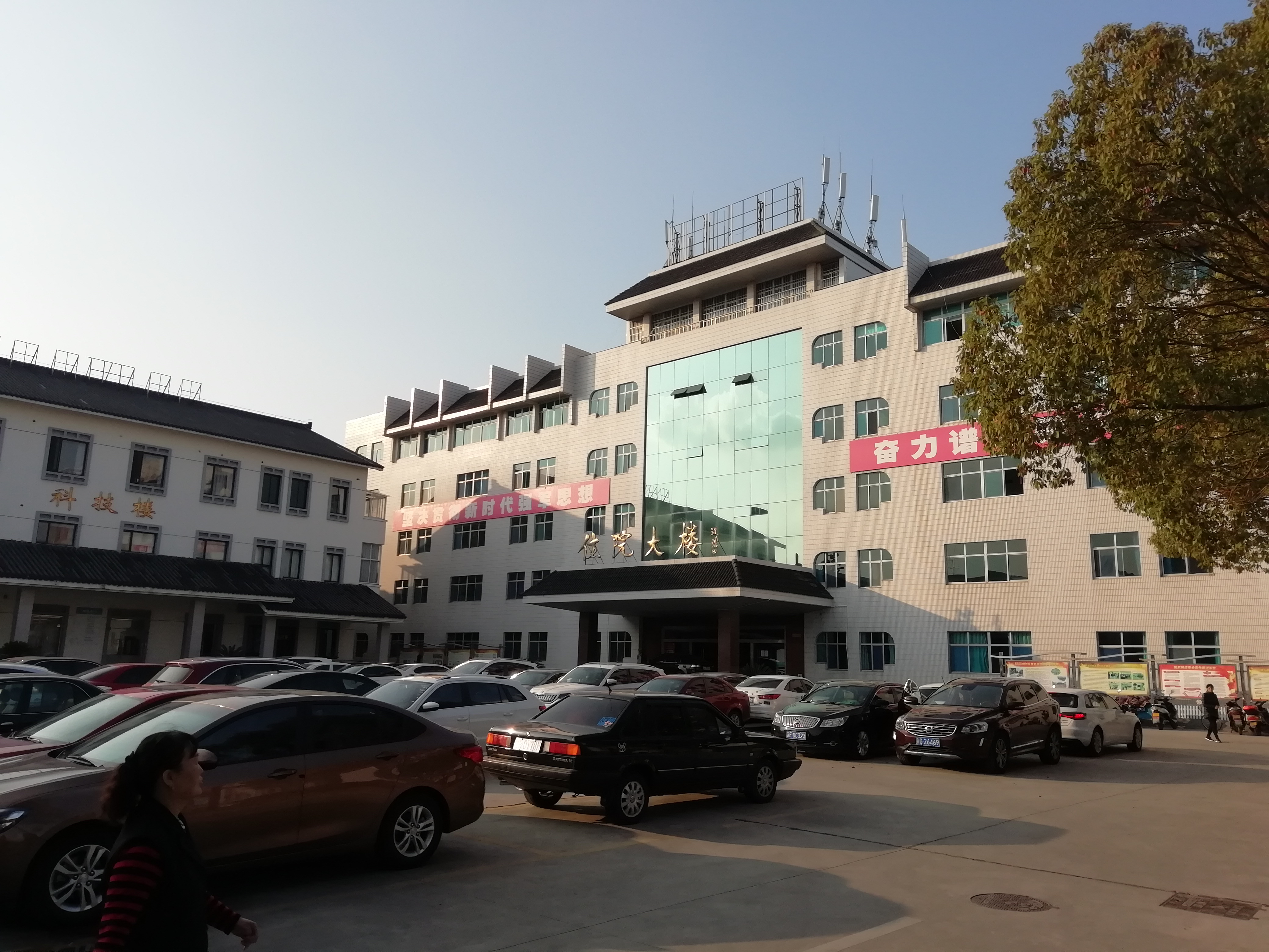 In-Patient Building of the No.100 Hospital of the PLA, located in Gusu District, Suzhou. This hospital is renamed as Suzhou branch of the No.904 Hospital in November 2018. 中文（中国大陆）: 100医院住院大楼。该院已于2018年11月更名为904医院苏州院区。